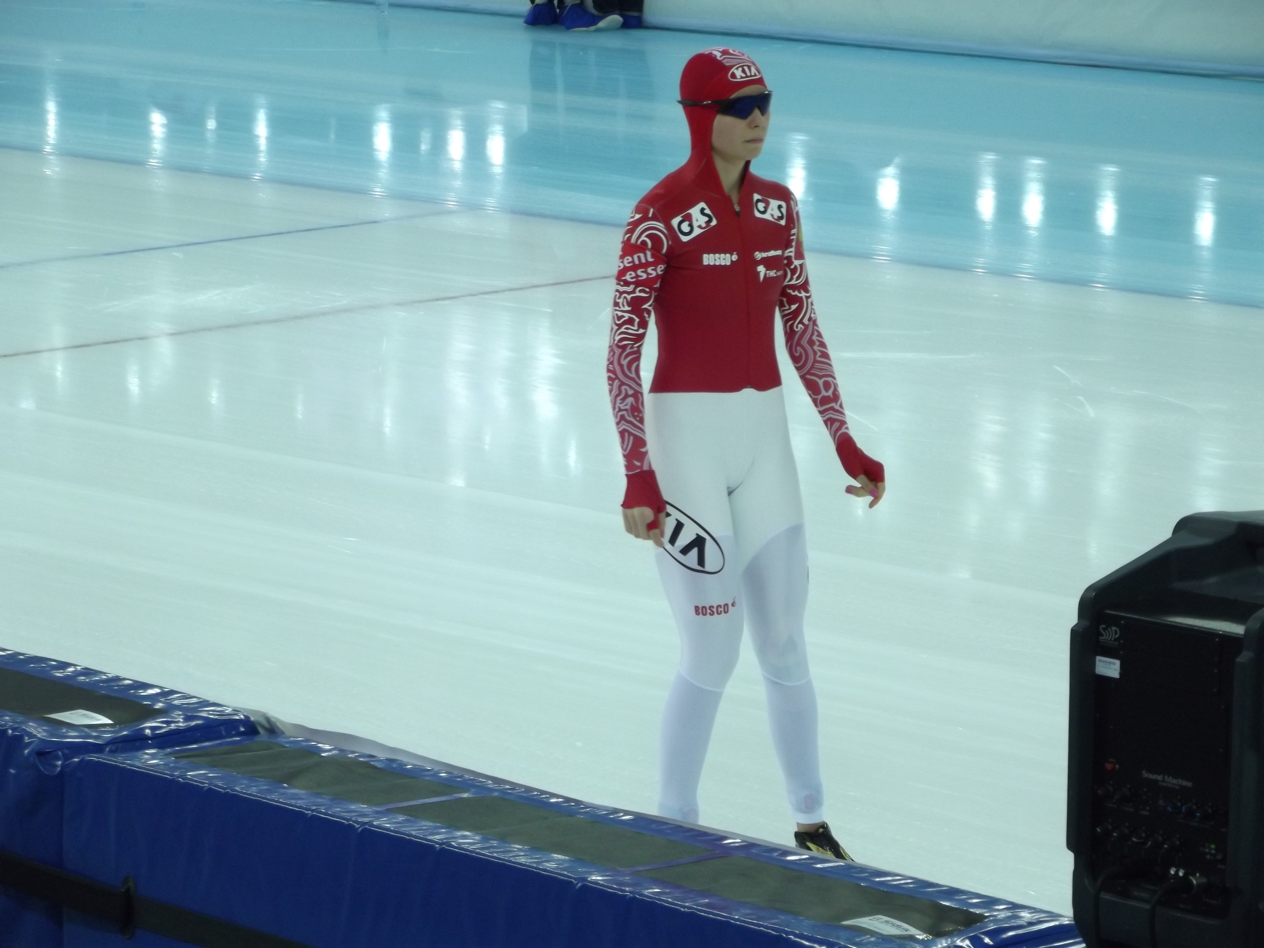 2013 World Single Distance Speed Skating Championships